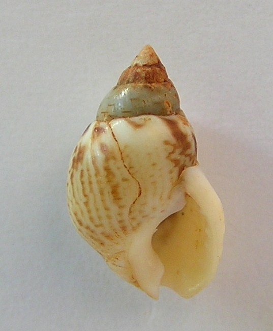 Tritia pfeifferi (Philippi, 1844) (synonym: Nassarius pfeifferi (Philippi, 1844) ) , a nassa mud snail in the family Nassariidae; Portugal